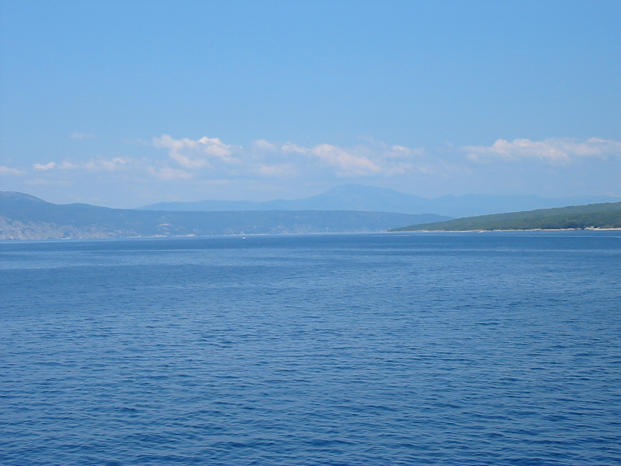 Marine channel Srednja vrata, the island of Cres on the left side, the island of Krk on the right side and the mountain Učka over both islands in the middle.